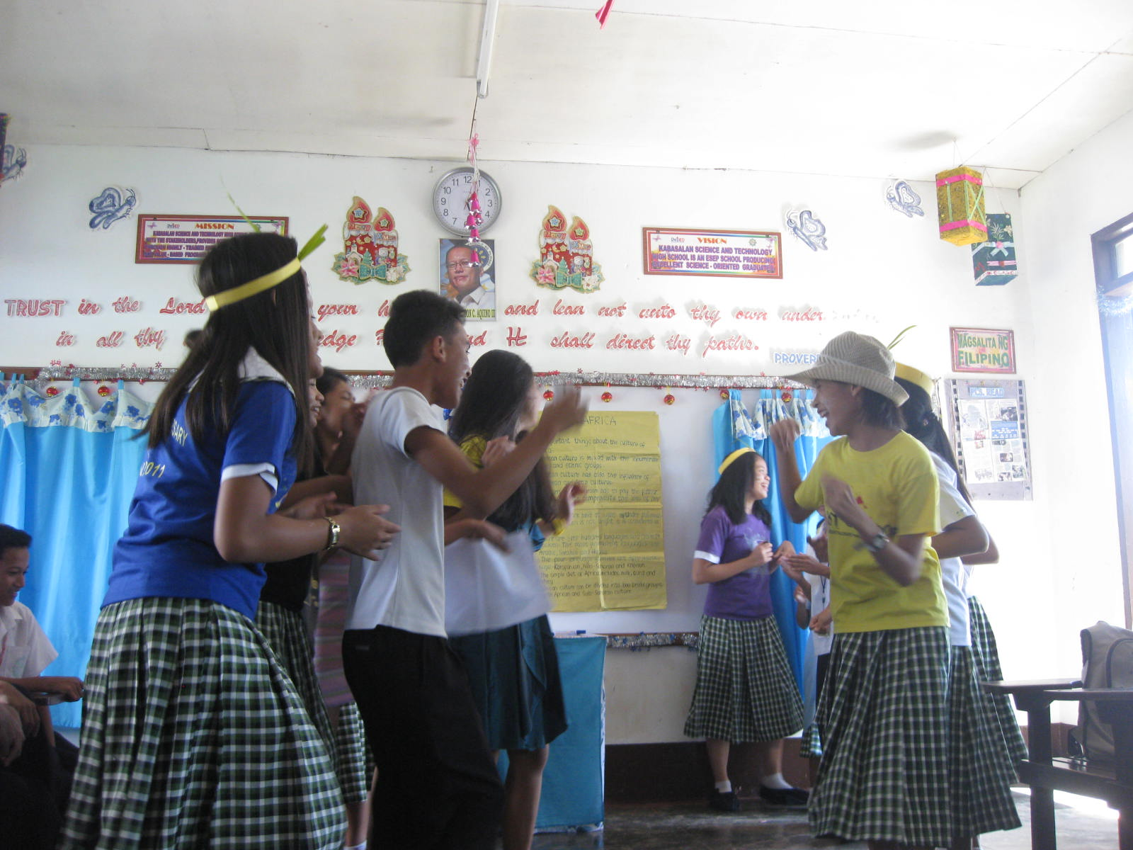 Students showcasing their talents during a routine performance